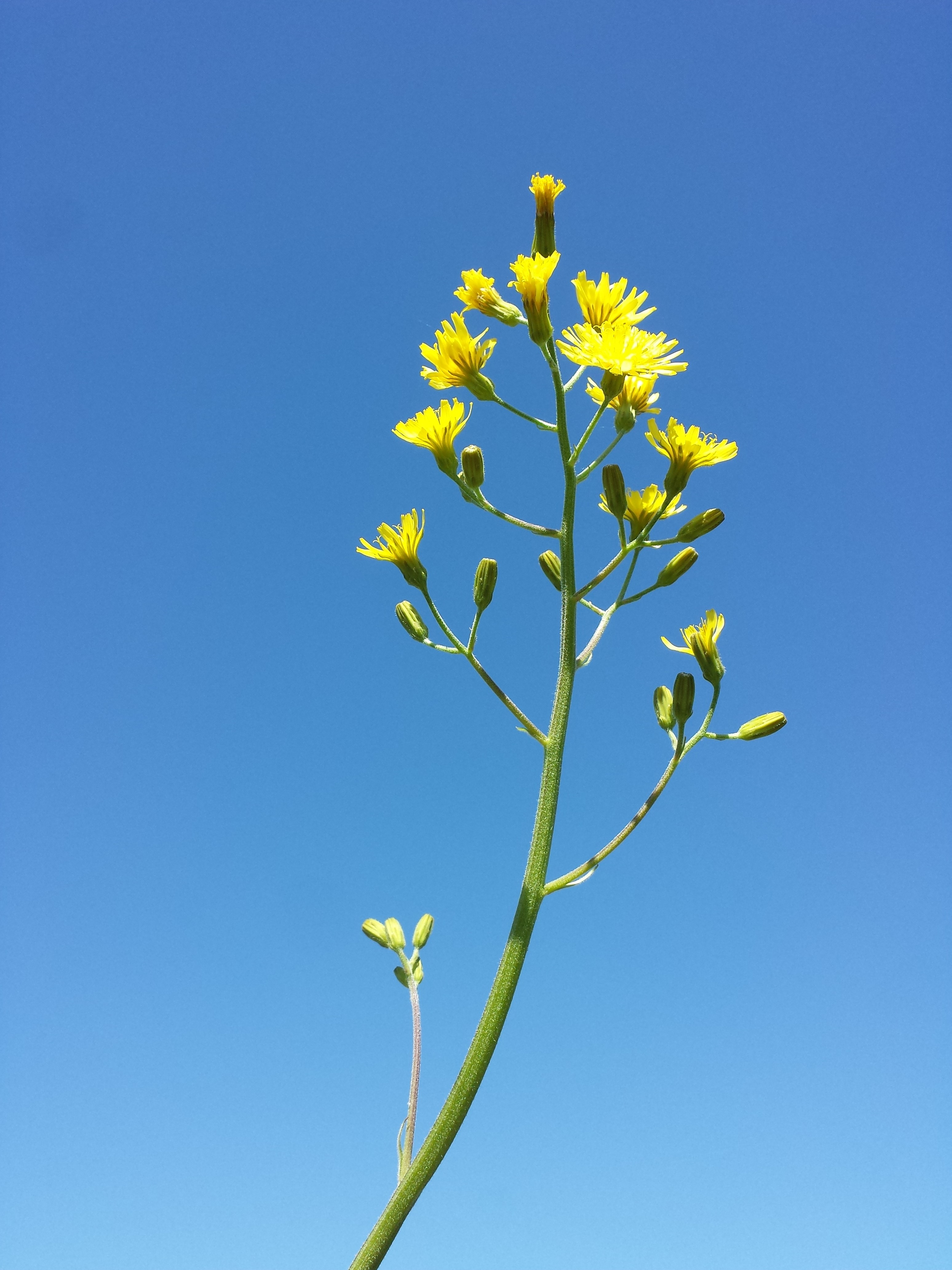 Inflorescence Taxonym: Crepis praemorsa ss Fischer et al. EfÖLS 2008 ISBN 978-3-85474-187-9 Location: semi-dry grassland to the South of motte next to Eitzersthal, district Hollabrunn, Lower Austria - ca. 240 m a.s.l. Habitat: dry meadows